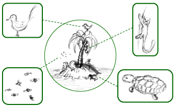 quick diagram for Fauna article; island as example region with several animals enlarged in separate frames; Jasu 12:21, 4 May 2006 (UTC)